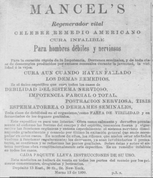 Ad for cure for impotence in 1891 La Democracia newspaper